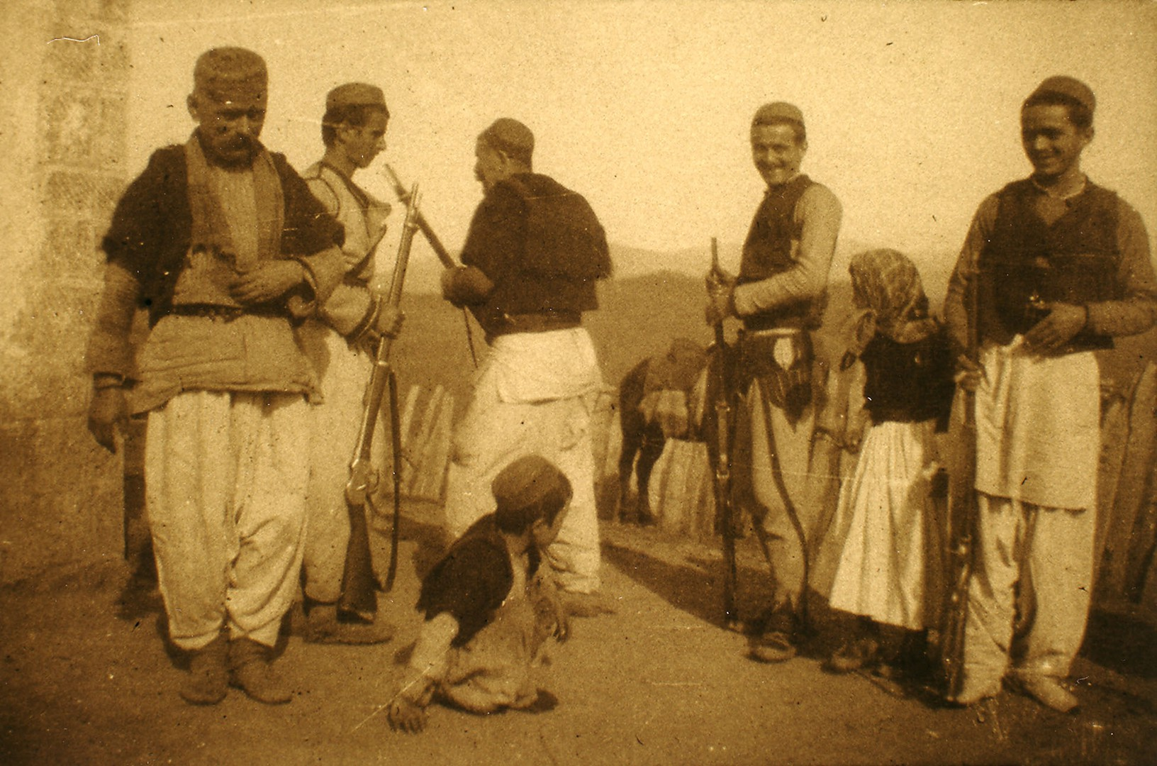 276 Albania. The men of Blinisht in the District of Lezha